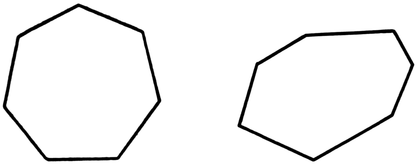 Line art drawing of heptagons.